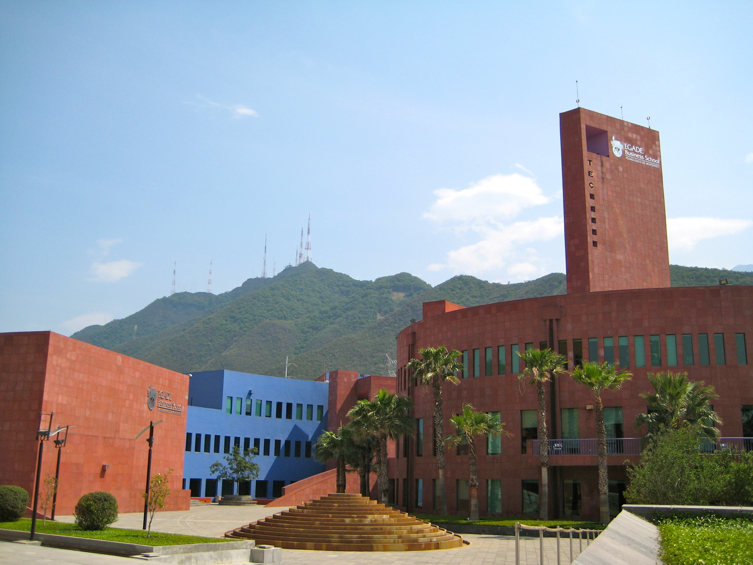 The EGADE Business School in San Pedro Garza Garcia, Mexico.